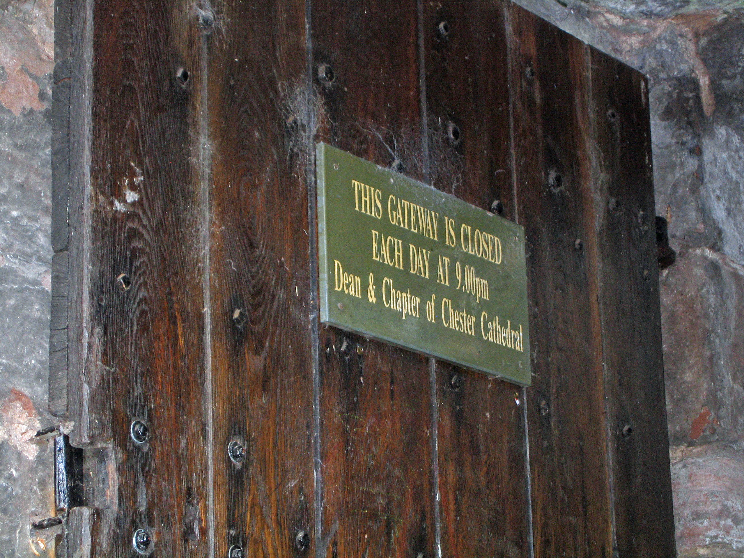 Photograph of the door in the Kaleyard Gate, Chester, Cheshire, England